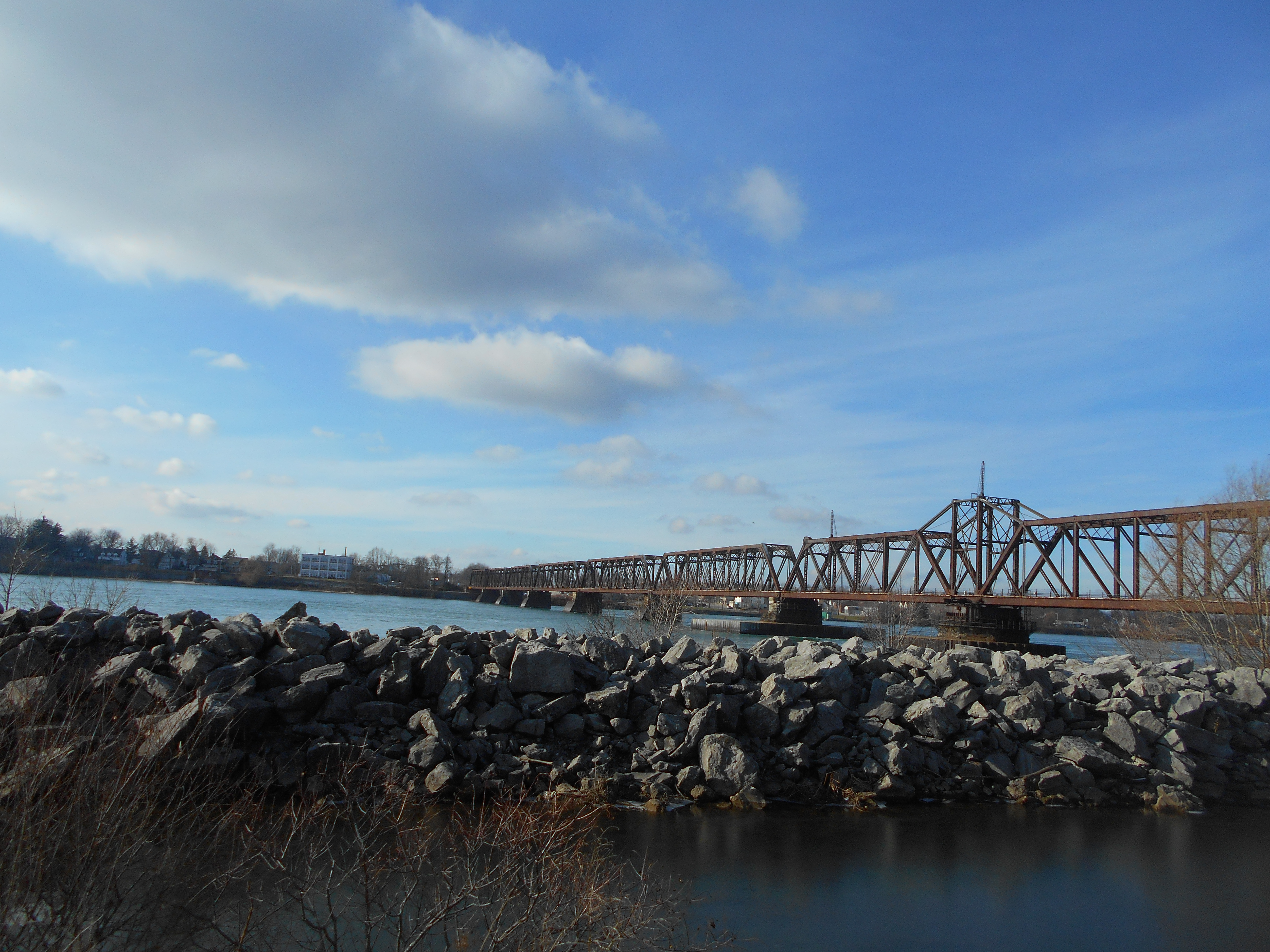 The International Railway Bridge on the United States side in Buffalo, New York in December 2014.